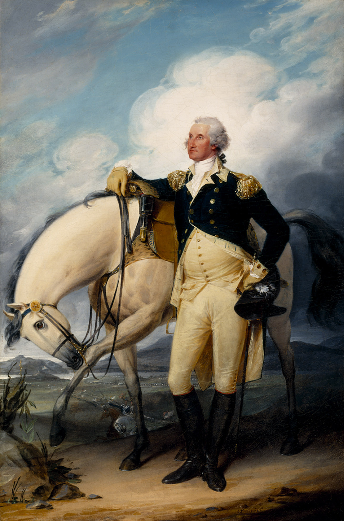 George Washington at Verplanck's Point on the North River on September 14, 1782, reviewing the French troops under General Rochambeau on their return from Virginia after the victory at Yorktown.